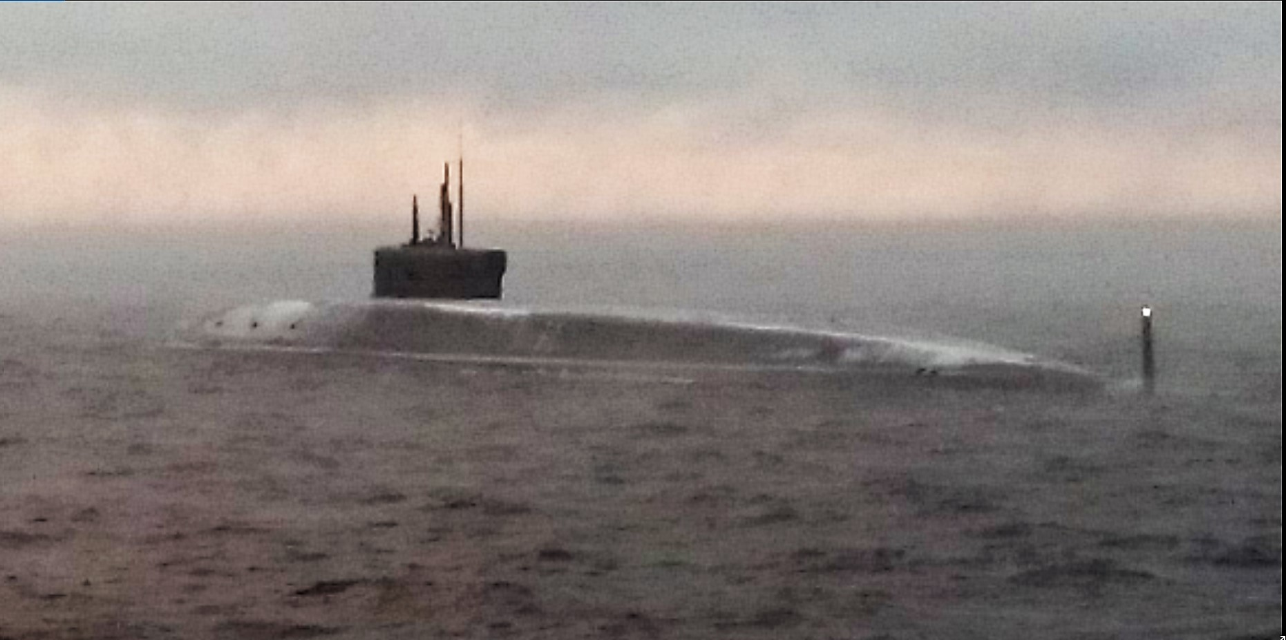 The russian ballistic missile submarine of the Borei-A class